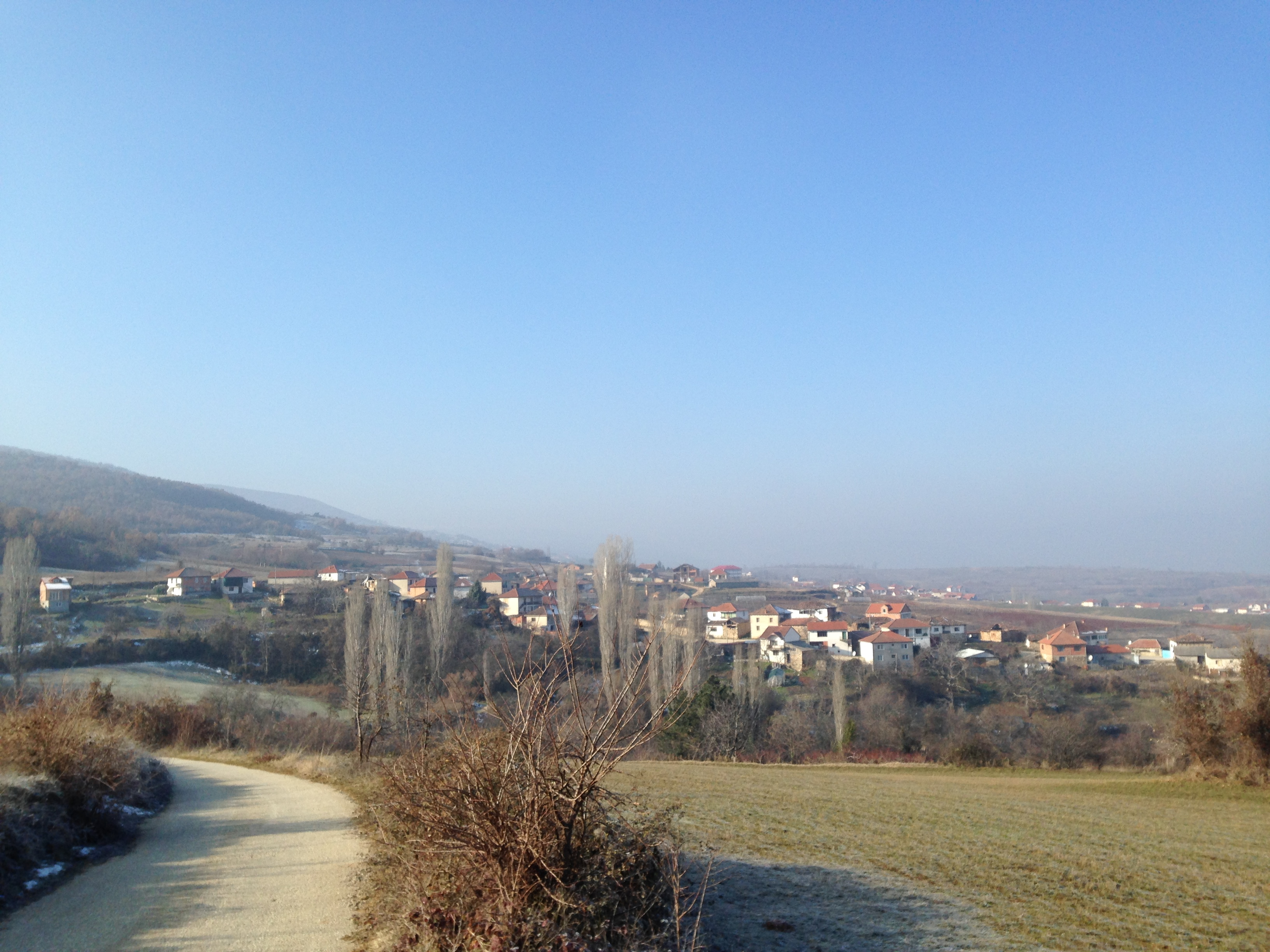 village of Pagaruša, near Skopje, Macedonia